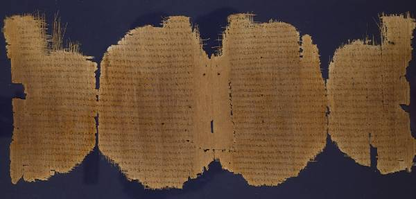 The front side of folios 13 and 14 of a Greek papyrus manuscript of the Gospel of Luke containing verses 11:50–12:12 and 13:6-24, P. Chester Beatty I (Gregory-Aland no. P45).